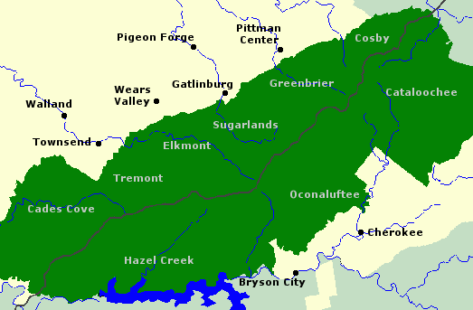 Map showing communities past and present within or bordering the Great Smoky Mountains. Present national park lands are in green, and are thus no longer populated. The gray border dividing the national park in two is the Tennessee-North Carolina border. The Great Smoky Mountains are located in the southeastern United States.